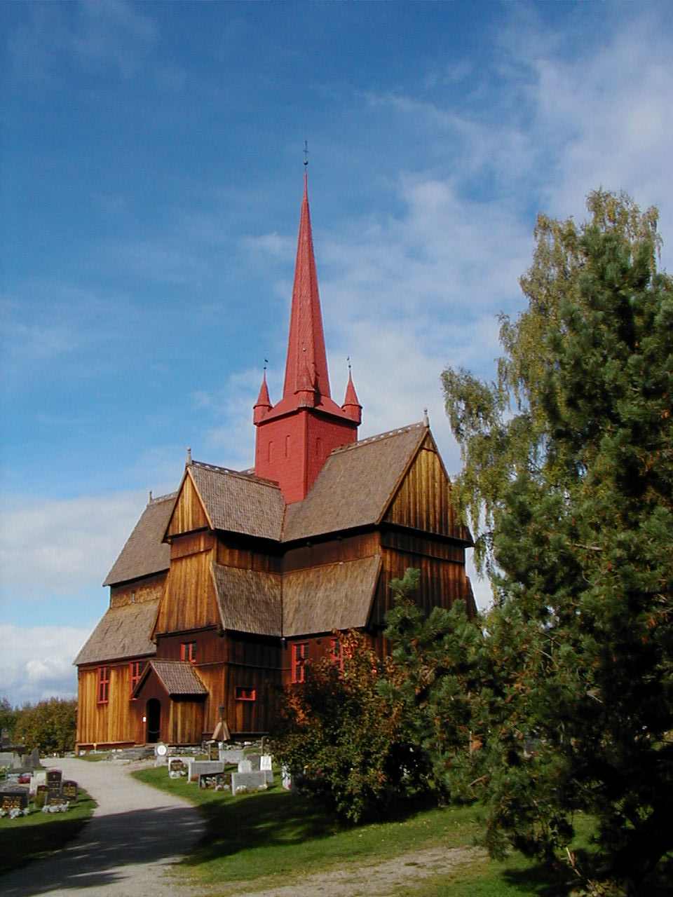 Ringebu Stavkirke.